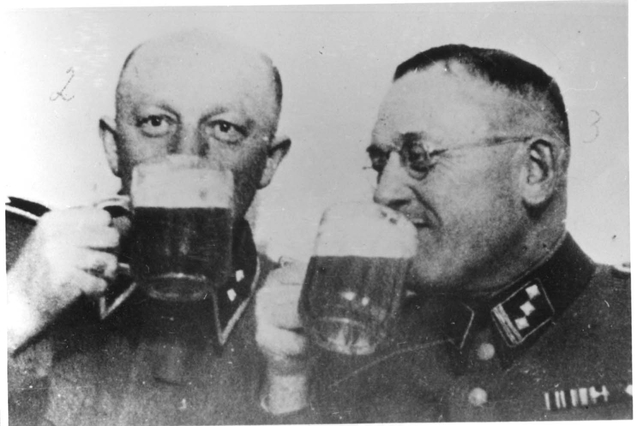 Oberscharführer (Staff Sergeant) Heinrich Gley and Hauptsturmführer (Captain) Gottlieb Hering drinking beer